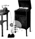 European Wire Recorders in the 1920s Textophon & Dailygraph The Telegraphone was not a commercial success, but it did demonstrate that a wire recorder could be used successfully for certain applications such as office dictation and telephone recording. Several European companies in the 1920s attempted to market improved wire recorders for dictating and telephone recording purposes. These were the first magnetic recorders to use the new technology of electronics. Using the vacuum-tube electronic amplifiers that became available after World War I, these recorders could capture weak telephone signals and reproduce them with greater volume than was possible with the Telegraphone. Examples of these European machines included the "Textophone" and the "Dailygraph."